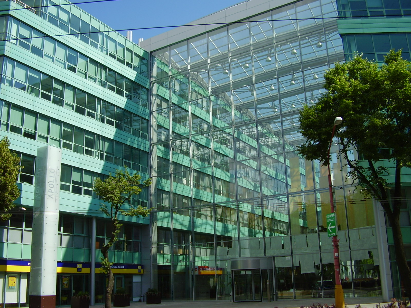 Apollo Business Center, Bratislava, Slovakia